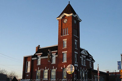 The post office in Tilbury